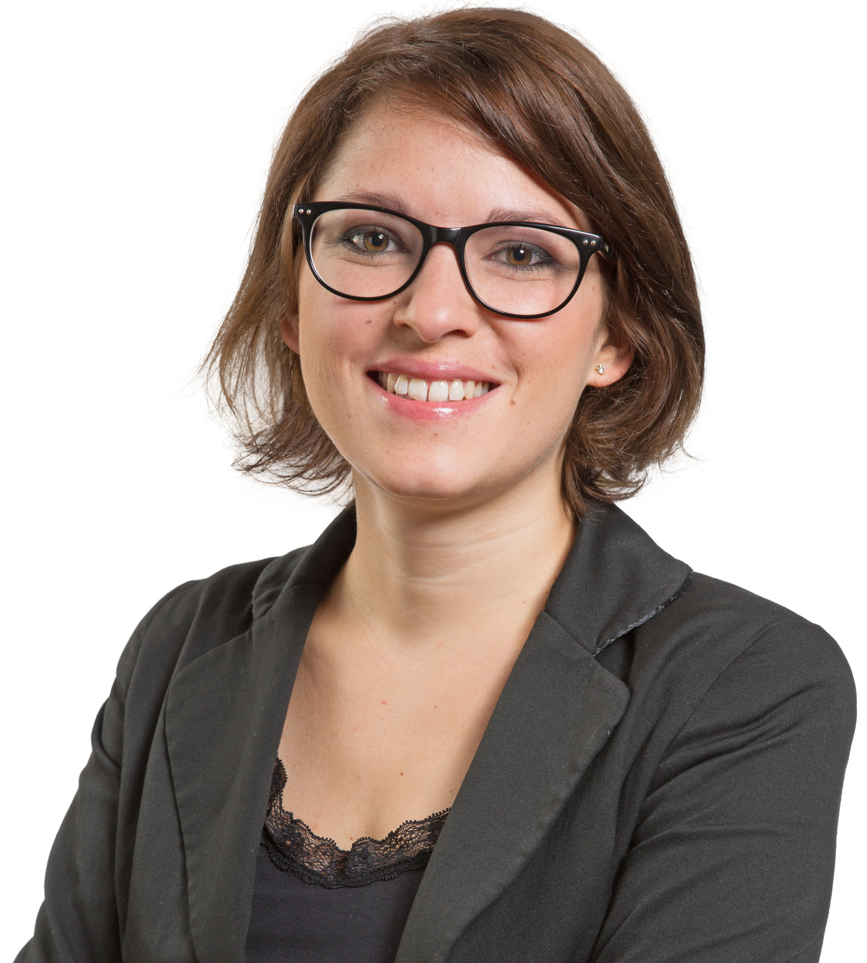 Official photo of Mattea Meyer, member of the Swiss National Council